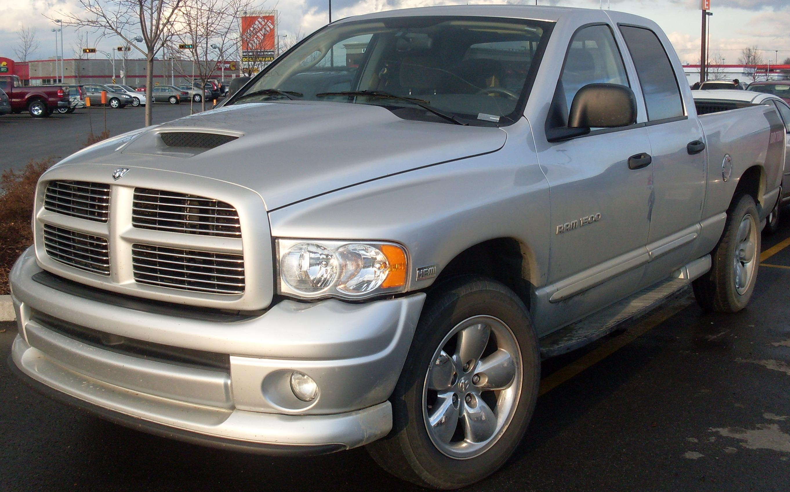 2005 Dodge Ram Daytona photographed in Vaudreuil-Dorion, Quebec, Canada.